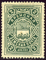 Zemstvo stamp of Yarensky Uyezd. 2 kopeks.